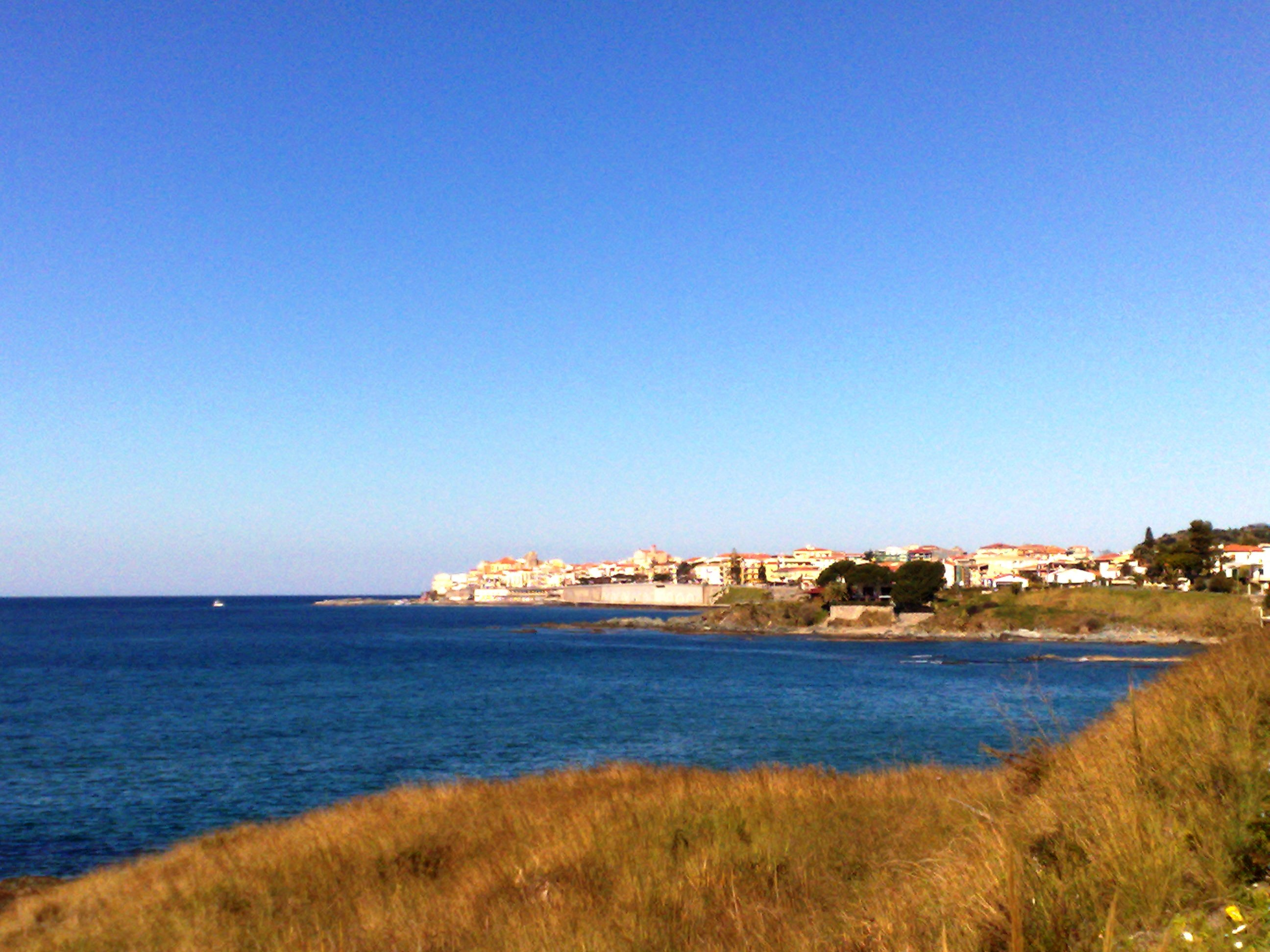 landscape of Diamante, Calabria, Italy from south.